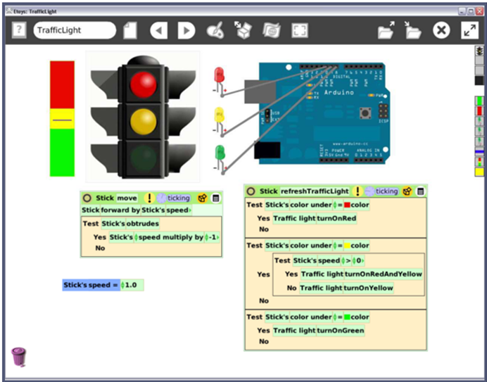 This shows a traffic light implementation with Physical Etoys.